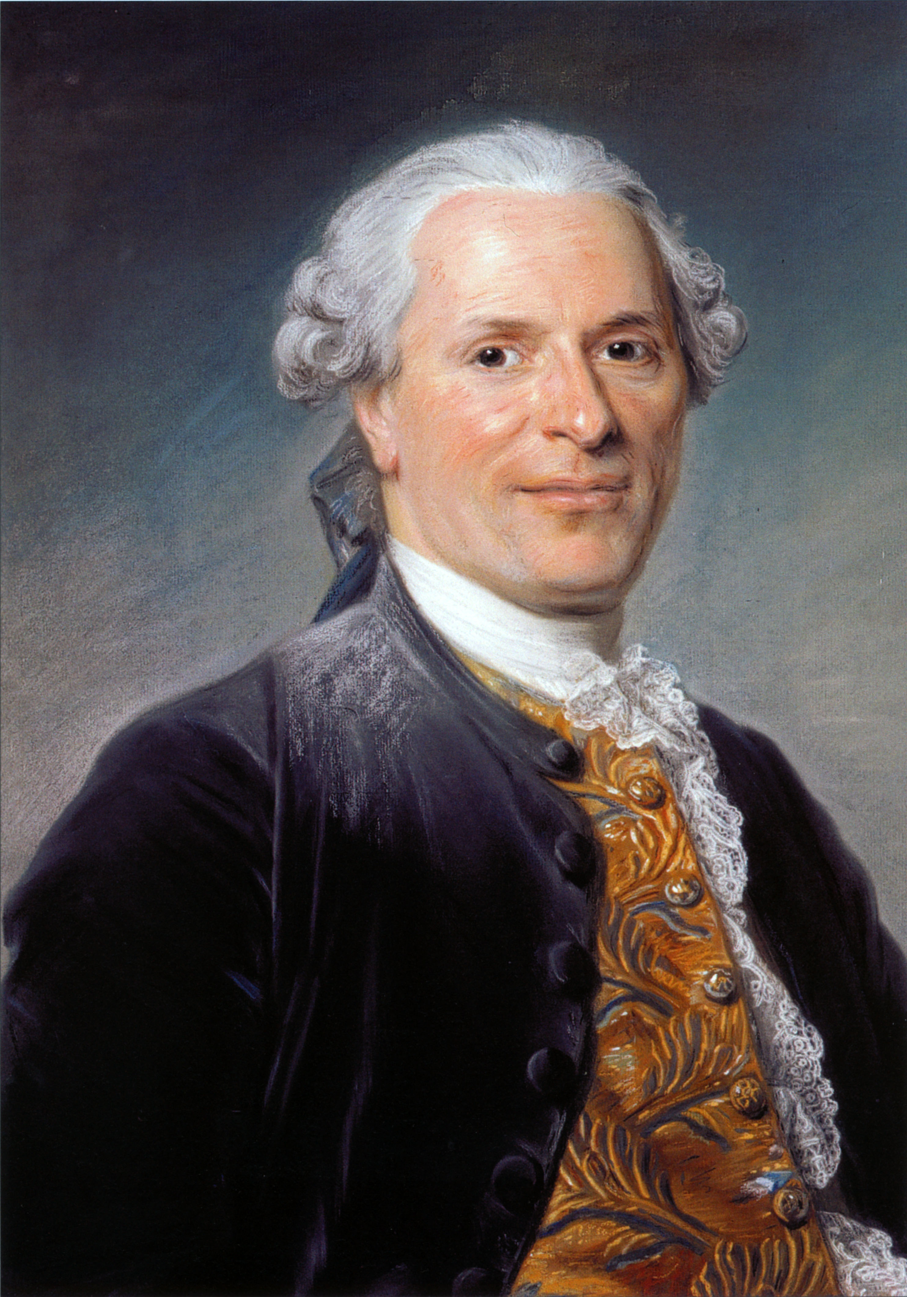 Jean Monnet, director of the Opéra-Comique. Unsigned, undated.